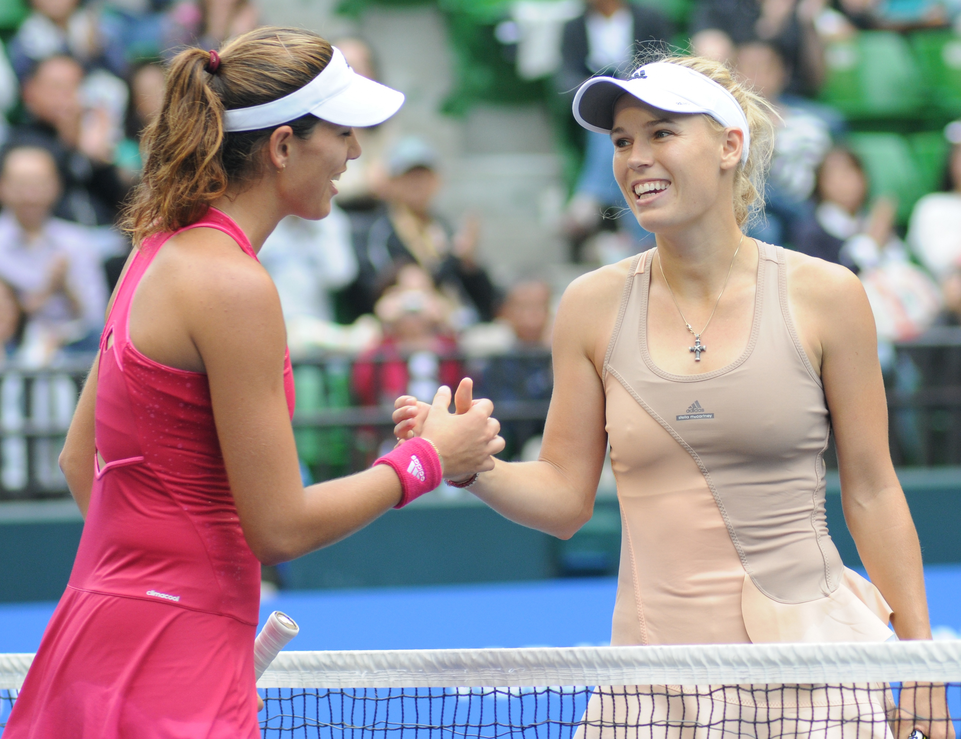 Caroline Wozniacki and Garbiñe Muguruza at the 2014 Toray Pan Pacific Open